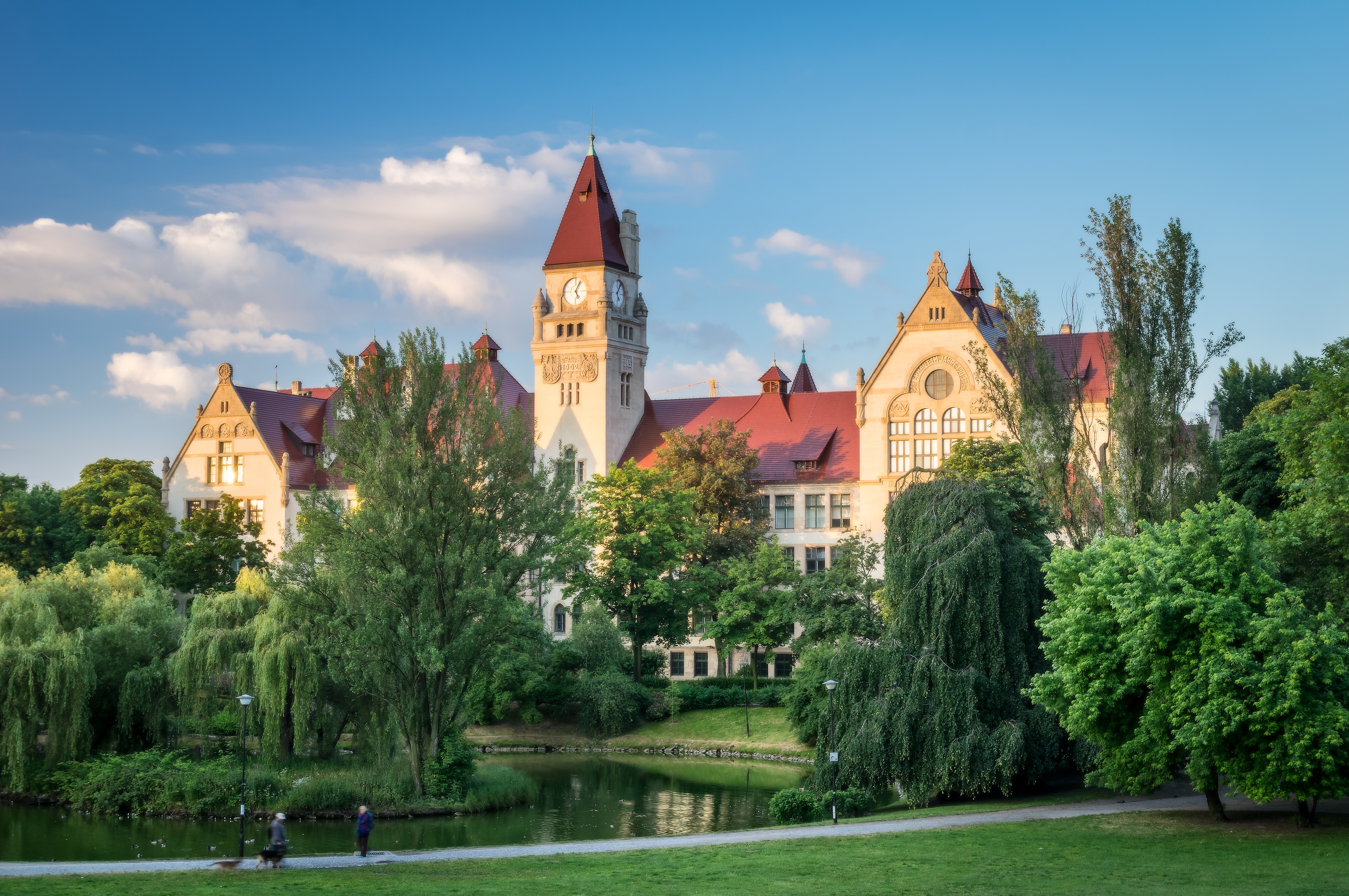 Wrocław University of Science and Technology, Faculty of Architecture (E1 Building, "Staatsbauschule" designed by Karl Klimm, Richard Plüddemann), 1901-1903. View from the Nowowiejski park (Park Stanisława Tołpy, Waschteich Park).